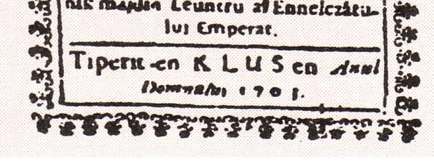 Part of book printed in 1703 in Cluj-Napoca, Transylvania